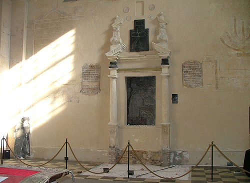 Isaac Synagogue in Kraków